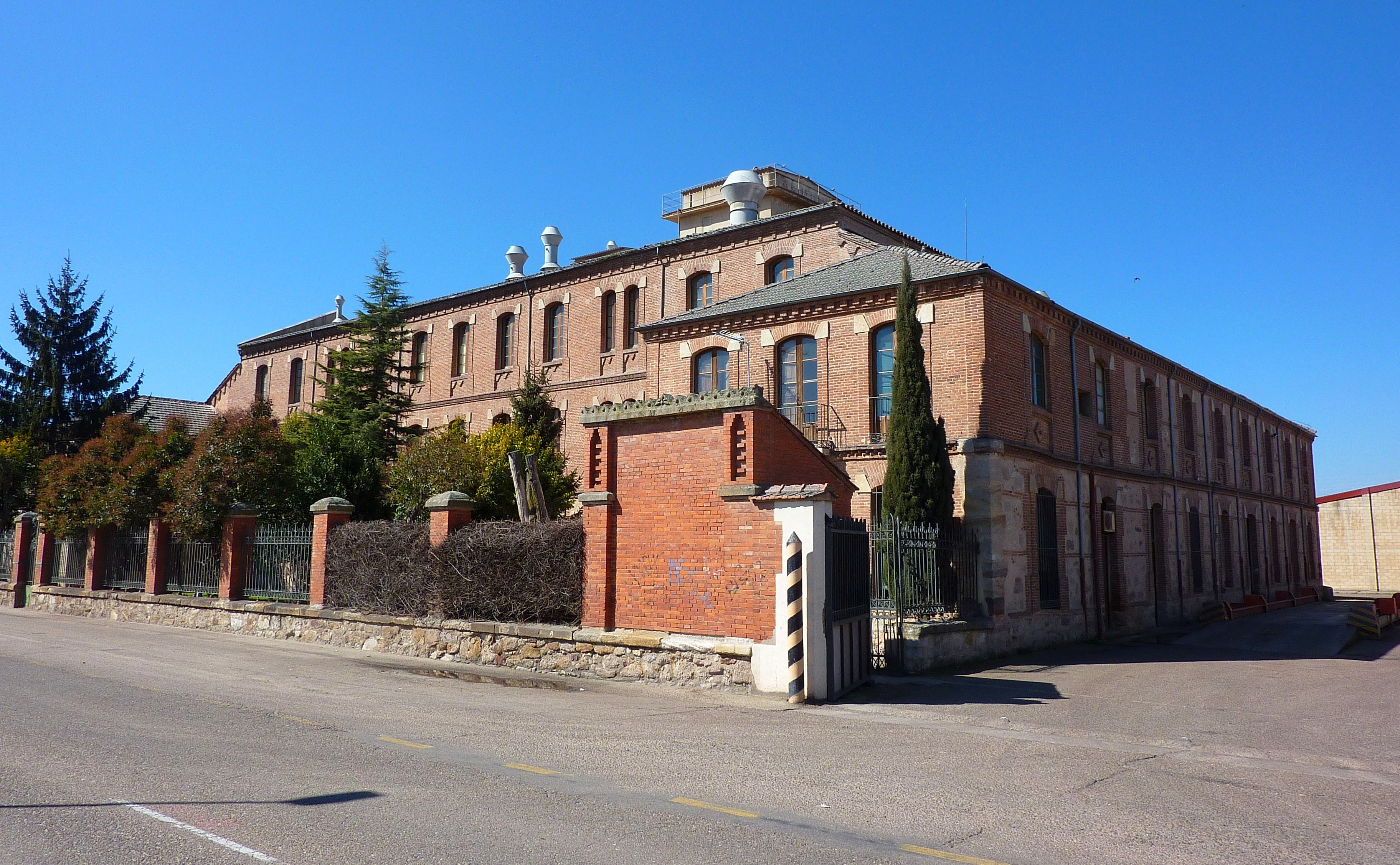 Bobo Flour Plant, Zamora, Spain.